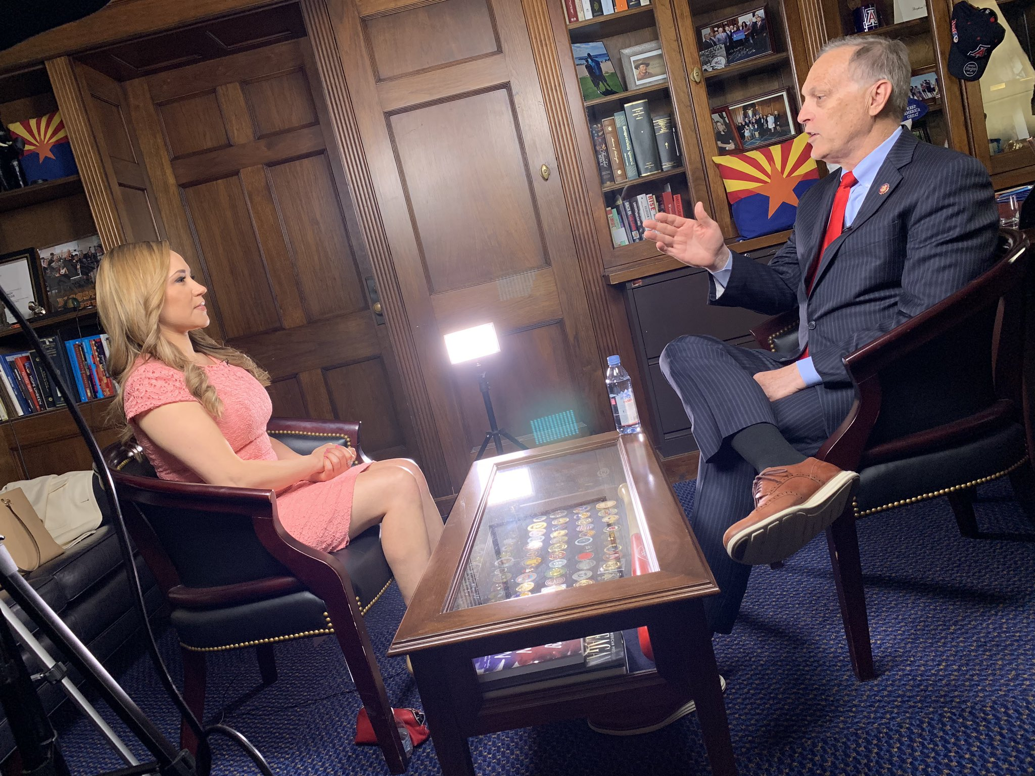 I enjoyed my conversation today with @STEPHMHAMILL about coronavirus, FISA reform, and border security. Look for the full interview shortly on the @DailyCaller. #AZ05